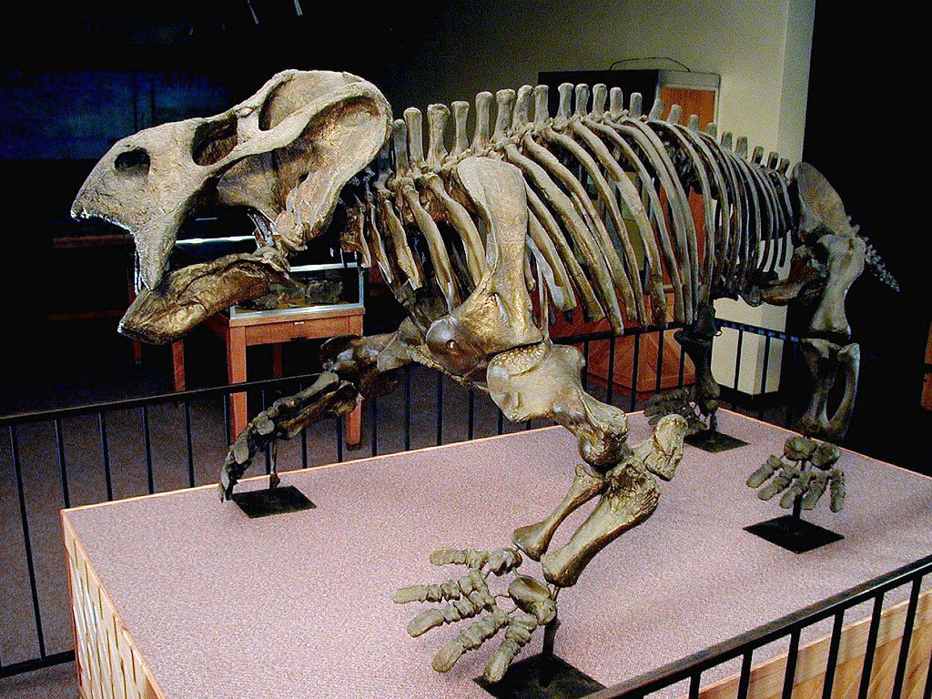 Fossil Placerias — exhibited at the Rainbow Forest Museum, Petrified Forest National Park, Arizona. Credit: NPS photo